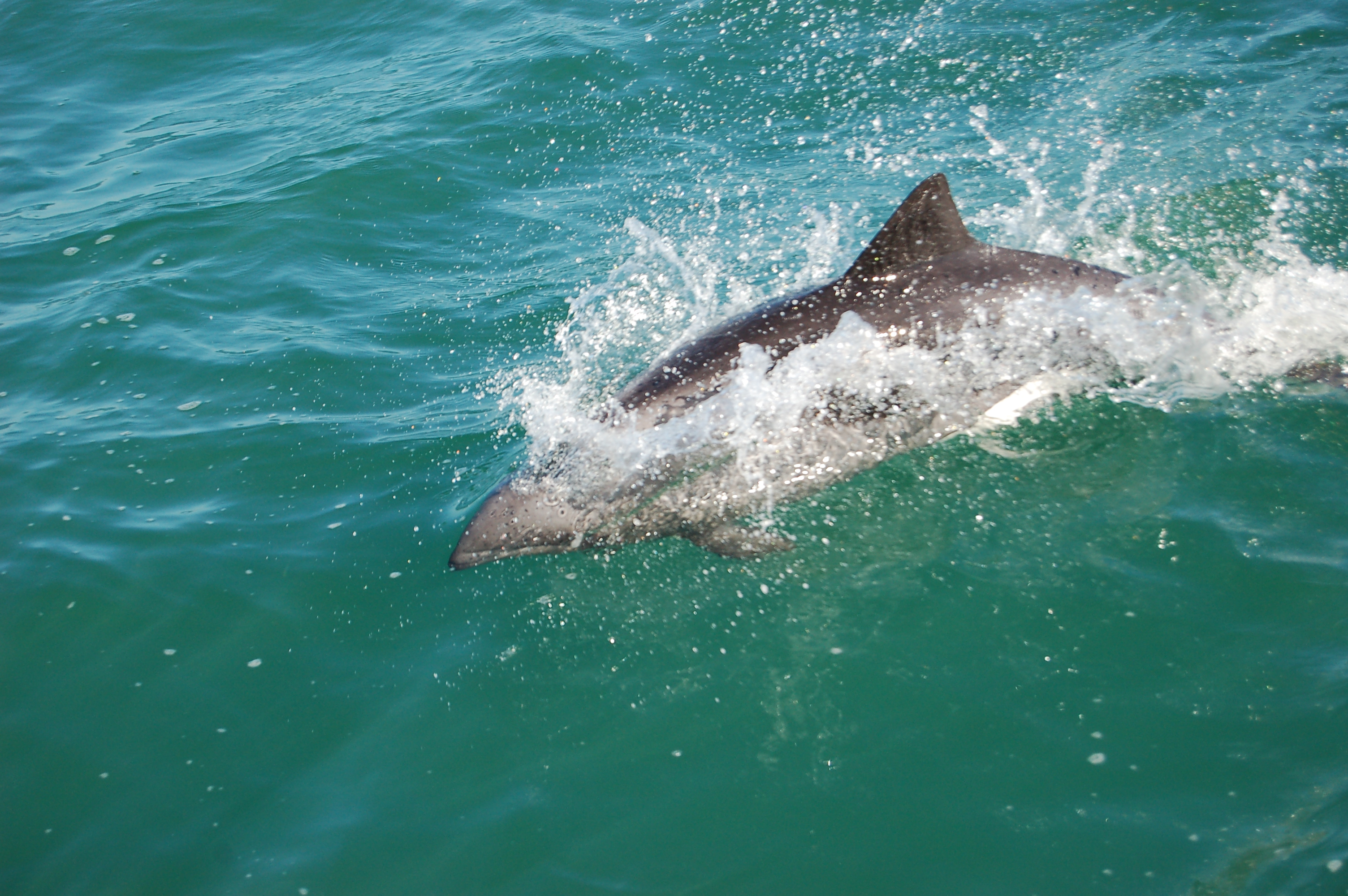 Haviside's dolphin (Cephalorhynchus heavisidii) off Lüderitz, Namibia